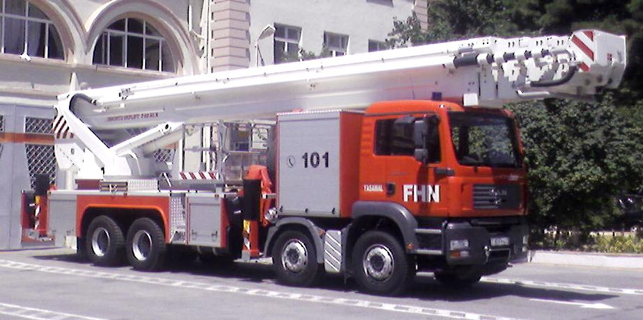 MAN fire ladder of Azerbaijan's Emergency Situations Ministry (FHN), Baku